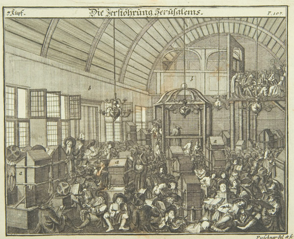 Illustration from Juedisches Ceremoniel, a German book published in Nürnberg in 1724 by Peter Conrad Monath. The book is a beautifully illustrated description of Jewish religious ceremonies, rites of passage and feast days, which first appeared in 1716, here in its second edition of 1724. The extremely detailed plates, by Georg Puschner, depict priestly robes, the celebrations of the New Year, Passover, the weekly Sabbath, circumcision, presentation of the first born, prayer at the synagogue, a wedding procession and a wedding, purification of the bride, the washing of the brother-in-law's feet, the feast of reconciliation, death rites, burials, as well as the procedures for other Jewish customs.